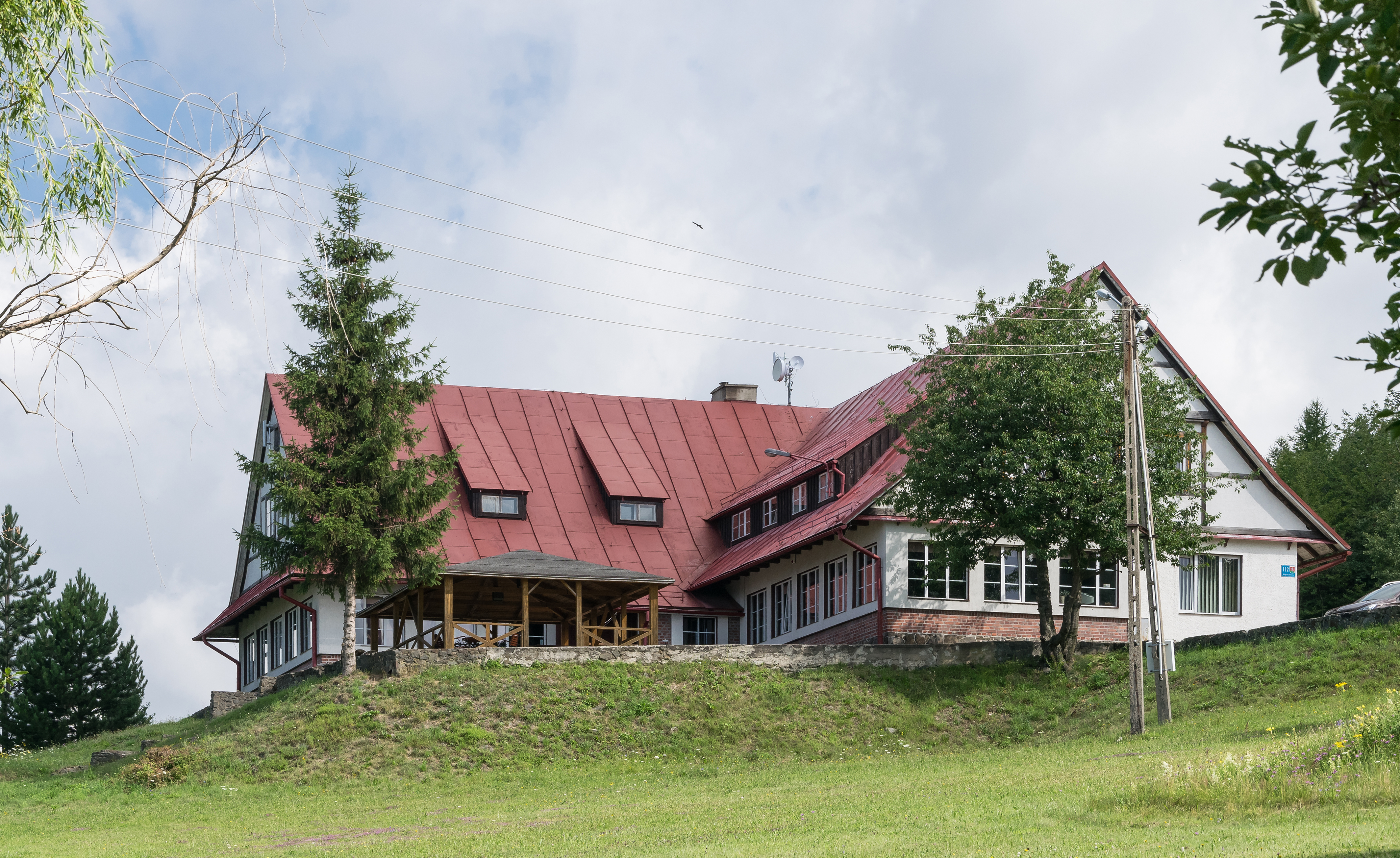 Kukułka inn in Wojciechowice